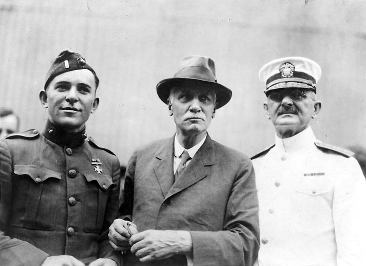 Rear Admiral Henry T. Mayo, USN (right) and Congressman Thomas S. Butler (center) With a U.S. Marine Corps Lieutenant (perhaps Lt. Fegan), on board USS Siboney (ID # 2999) with the 13th Regiment returning to the U.S. from France, 8 August 1919. Courtesy of Major Fegan, USMC, 1928.